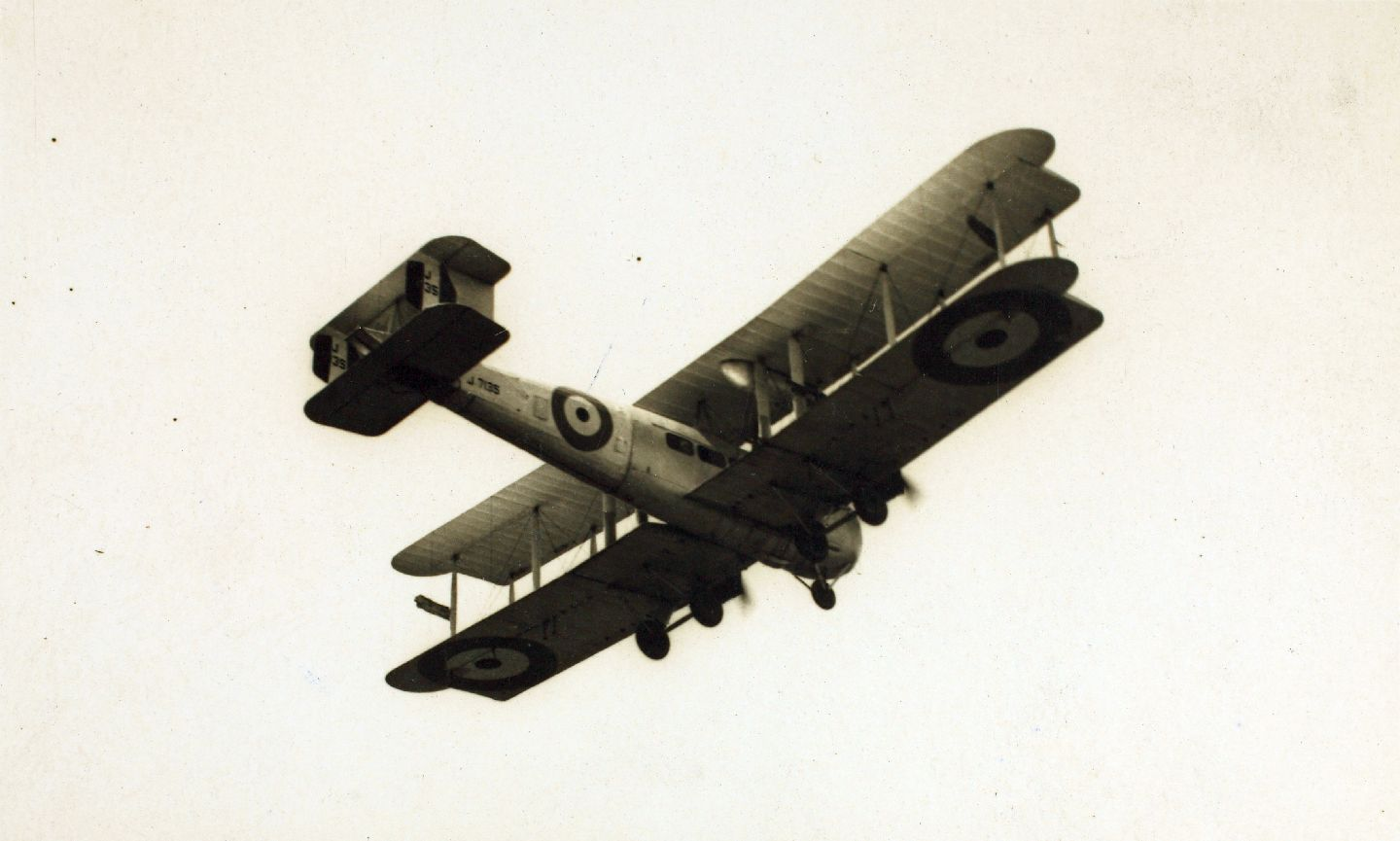 A Vickers Vernon of Royal Air Force